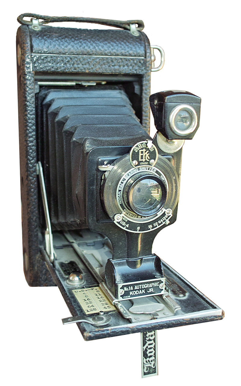 Photo of a No.1-A Autographic Kodak Jr. (made 1914-1927, originally at $24, according to This one was bought in 1922 by my Granddad to take pictures of my Dad when he was born, according to the story I've been told. Note the table to convert the aperture settings marked in Uniform System (US) stops to f-numbers; I added this table circa 1965.